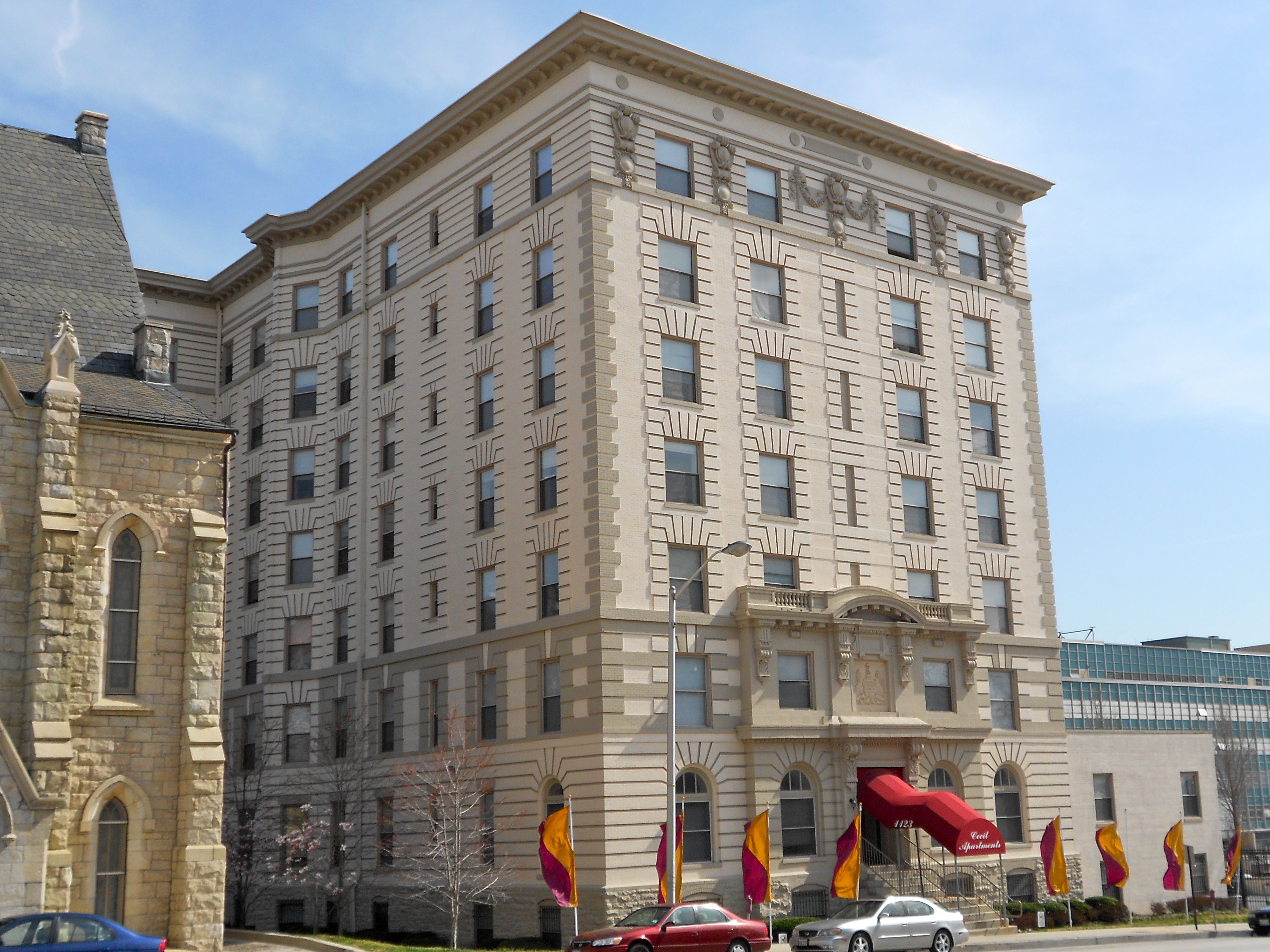 Cecil Apartments on the NRHP since June 30, 2000. At 1123 N. Eutlaw St. in central Baltimore, Maryland.